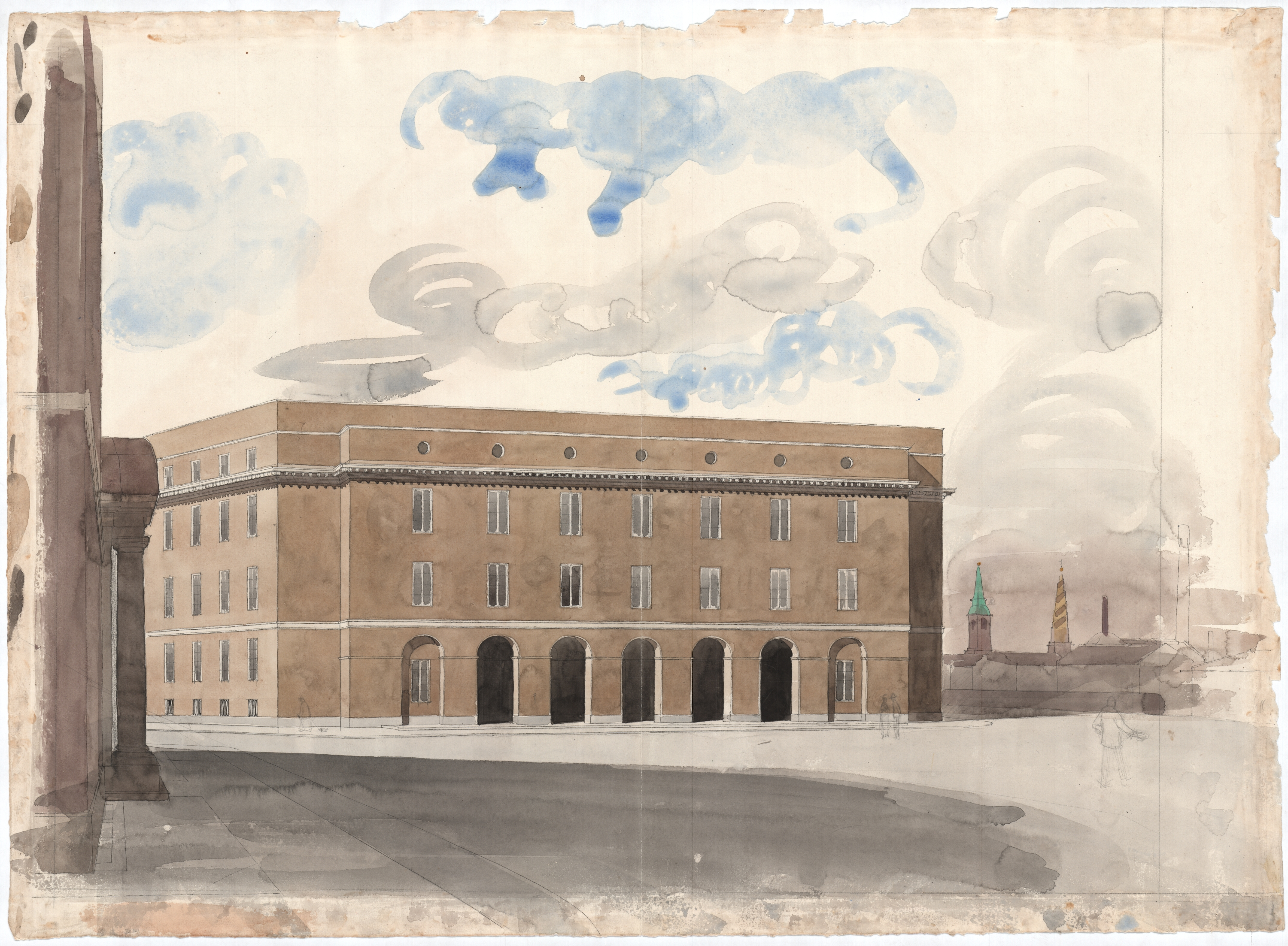 Drawing of Copenhagen Police Headquarters by its archite1910